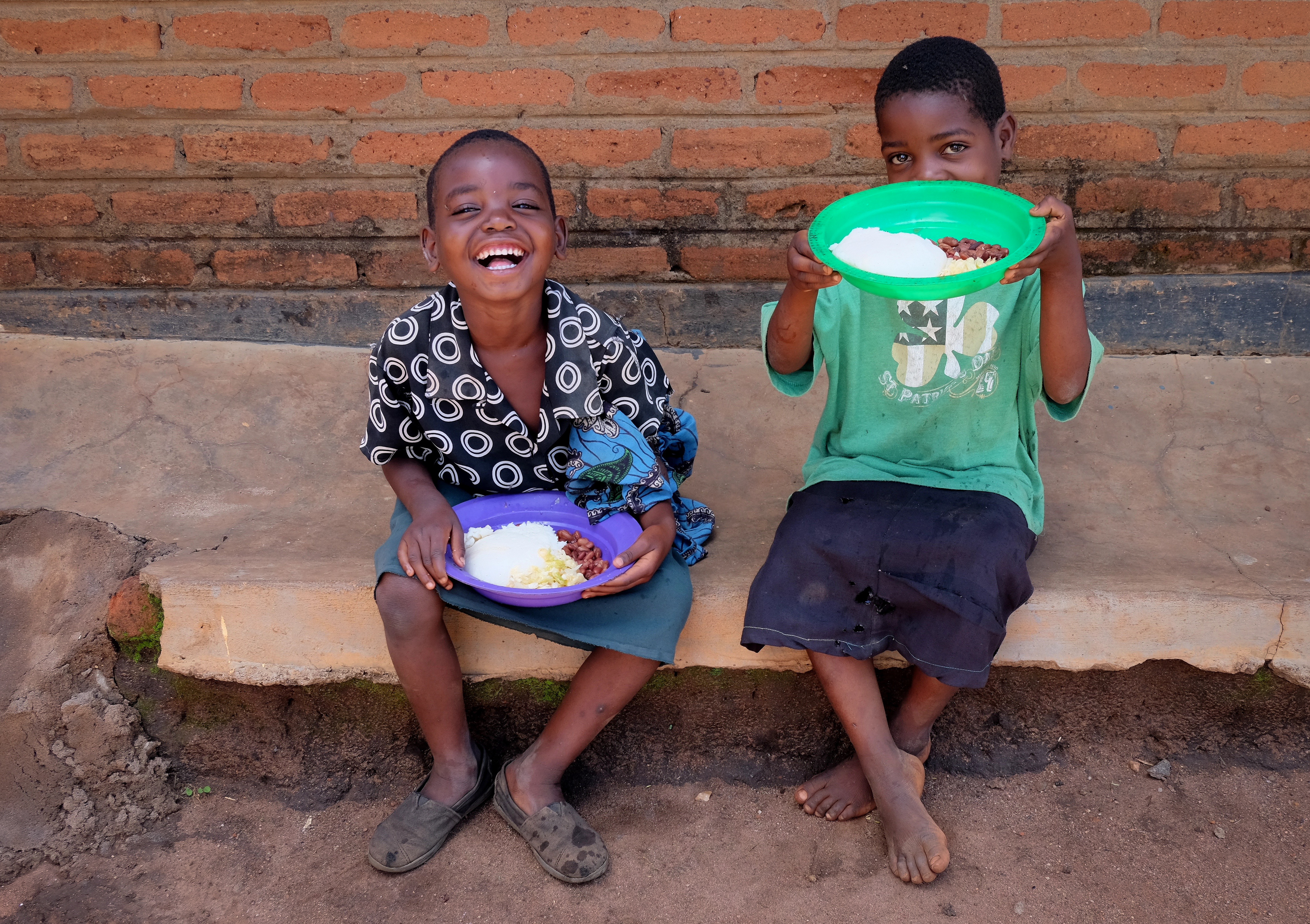 Friends at Chikondi Malawi eating nsima, ndiwo and masamba.